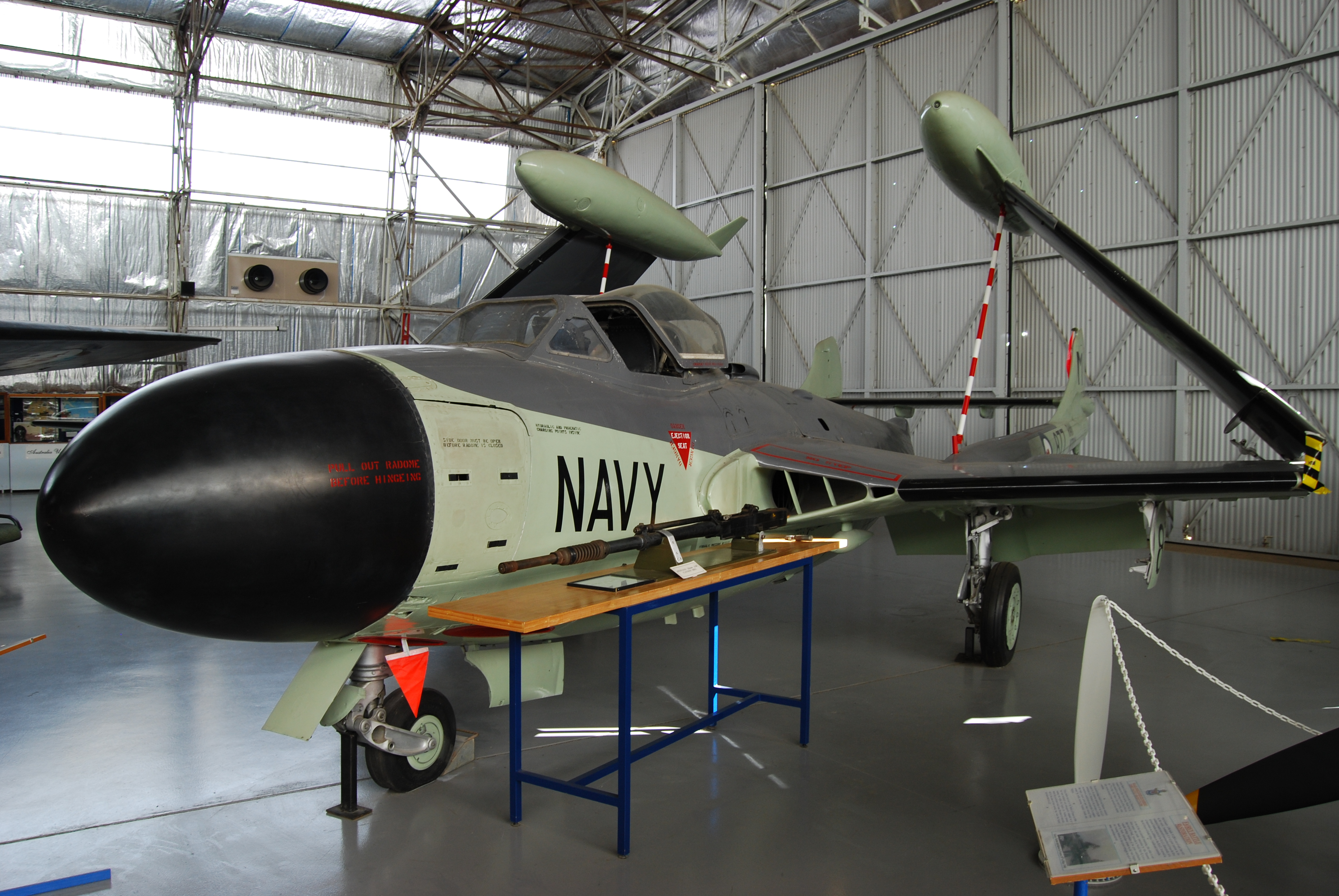 De-Havilland Sea Venom (WZ-931) at the South Australian Aviation Museum, Port Adelaide